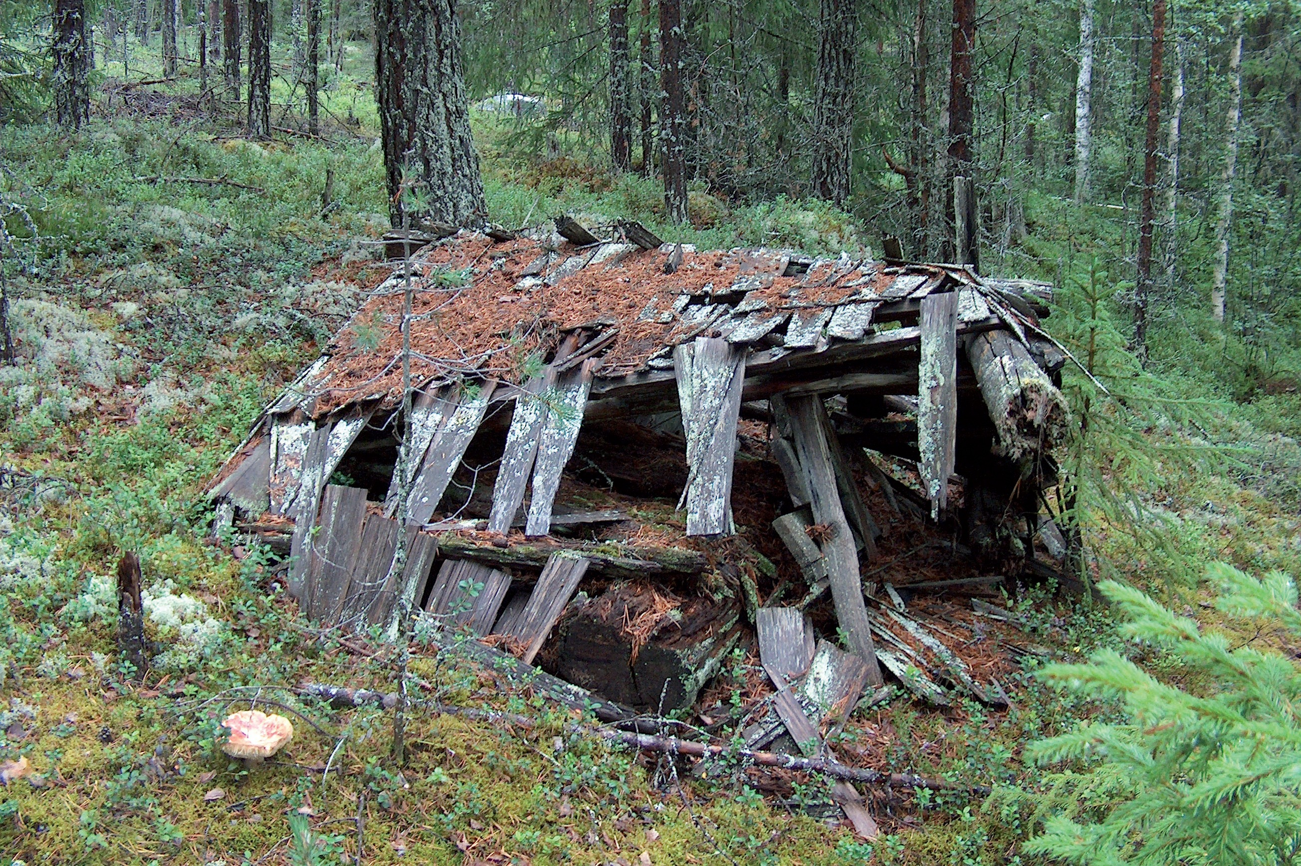 Ruin of a treehouse used by forest workers, Hamra national park.